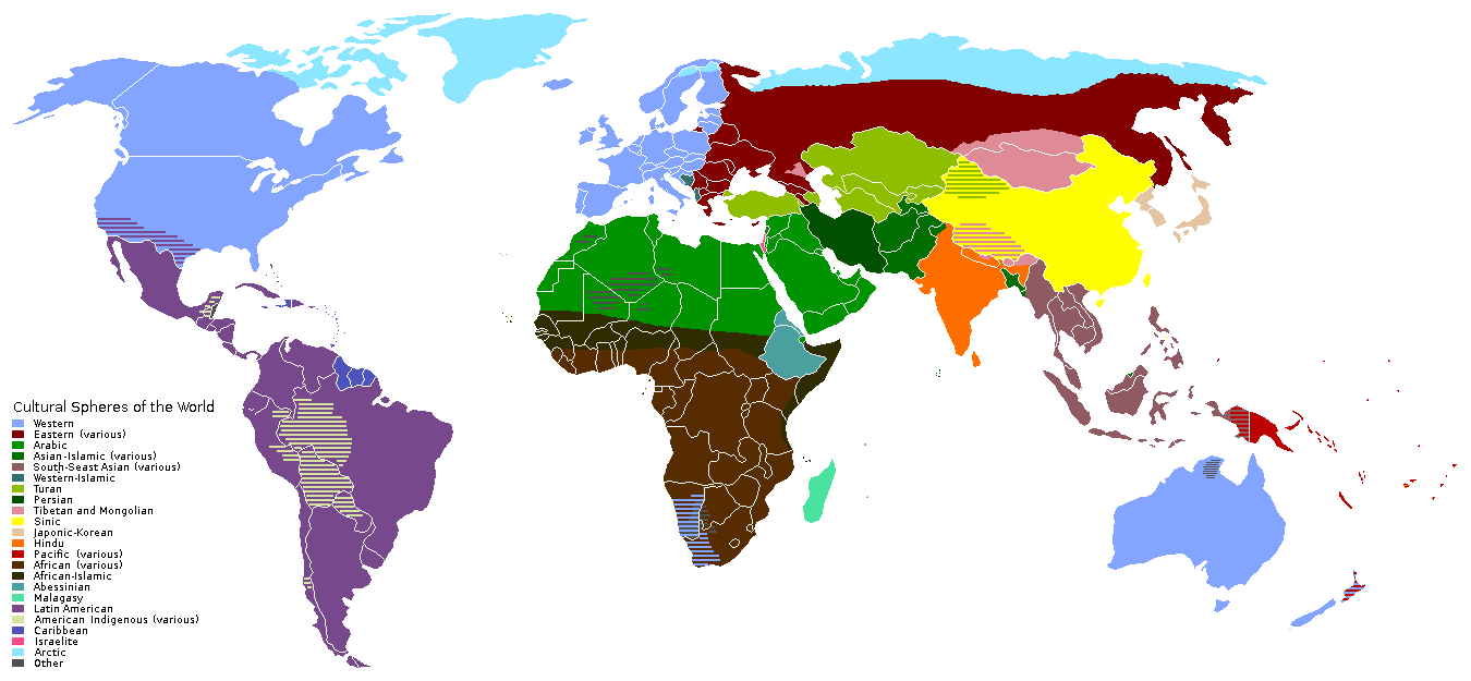 simplified map of major cultural spheres